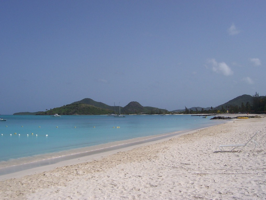 Jolly Bay in Antigua. By (WT-shared) Tim Sandell taken 18/7/06.